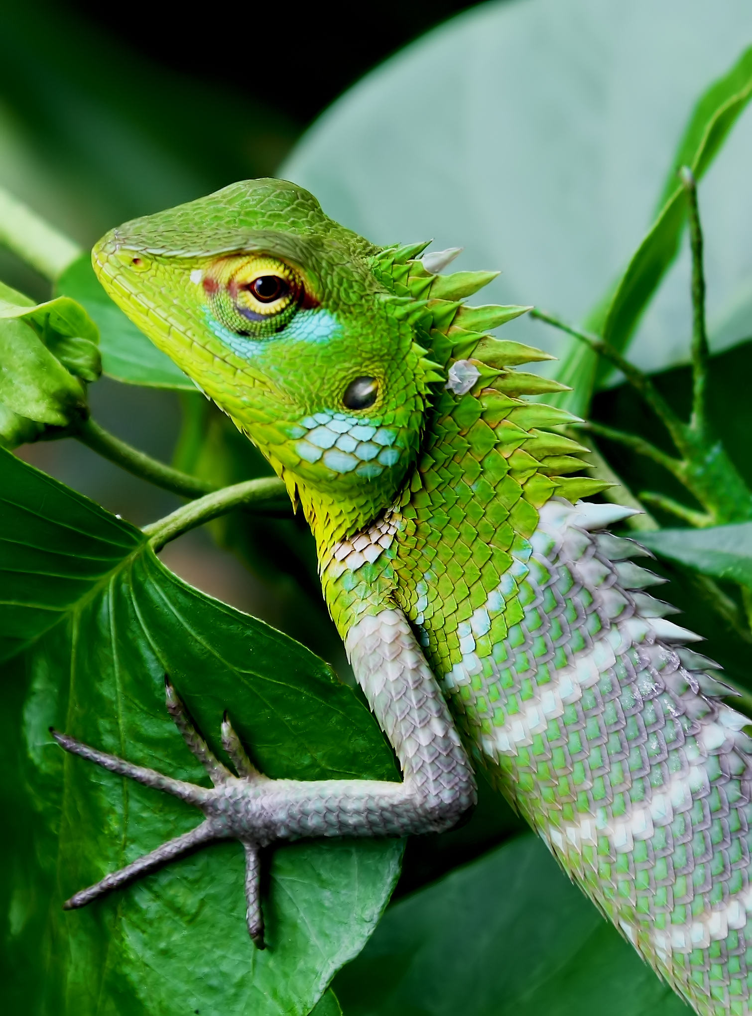 Common green forest lizard (Calotes calotes) in Sri Lanka. It is captured somewhere in Piduruthalagala Forest Reserve.